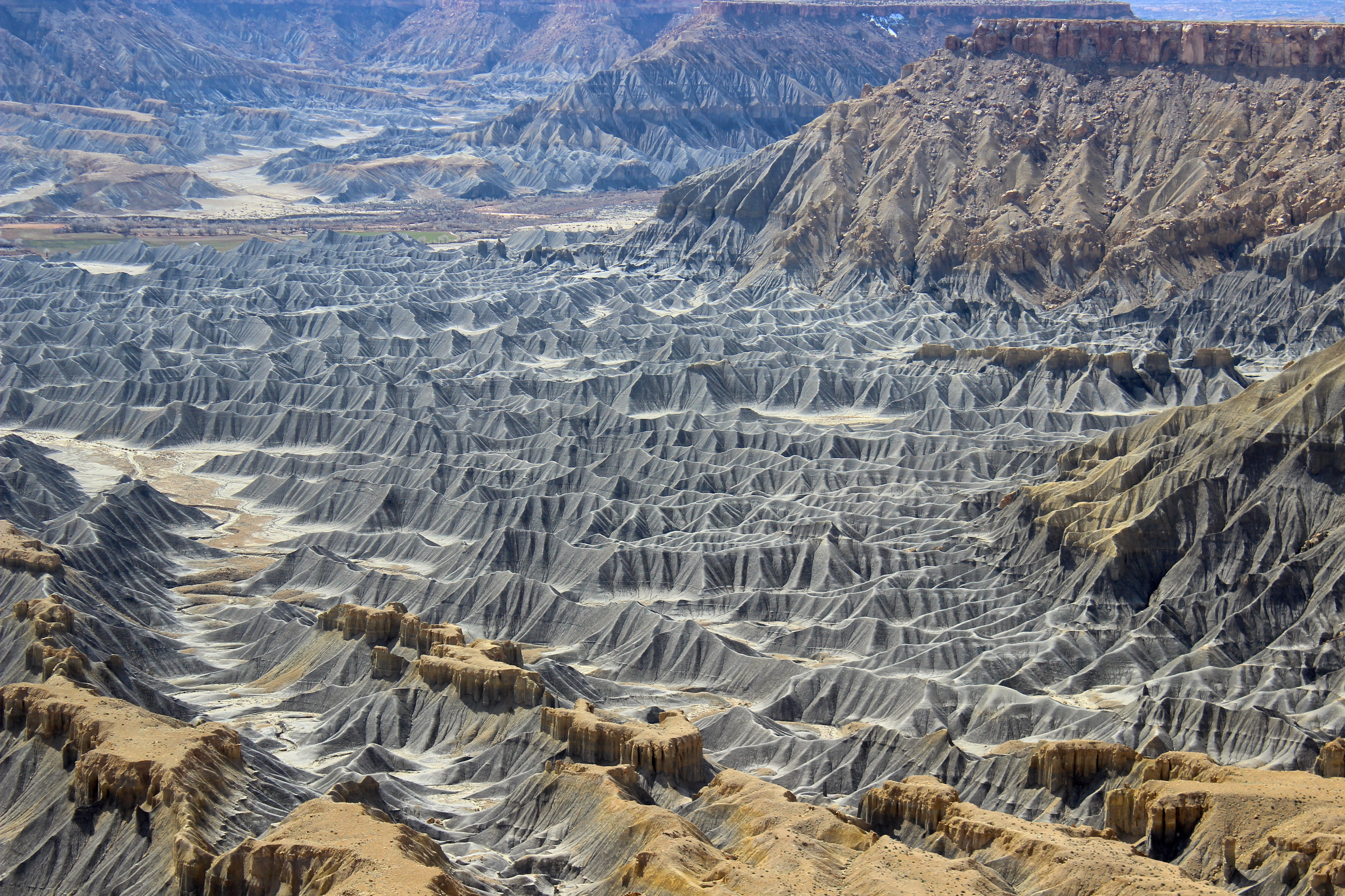 Badlands incised into shale at the foot of the North Caineville Plateau, within the pass carved by the Fremont River known as the Blue Gate. View is looking south, with the Fremont in the distance at the foot of the South Caineville Plateau. Caineville lies to the southwest (not visible).